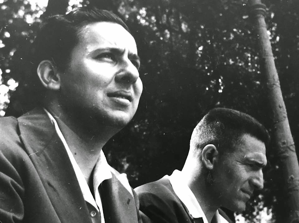 The writer Michele Prisco and the artist Enrico Accatino, 1947